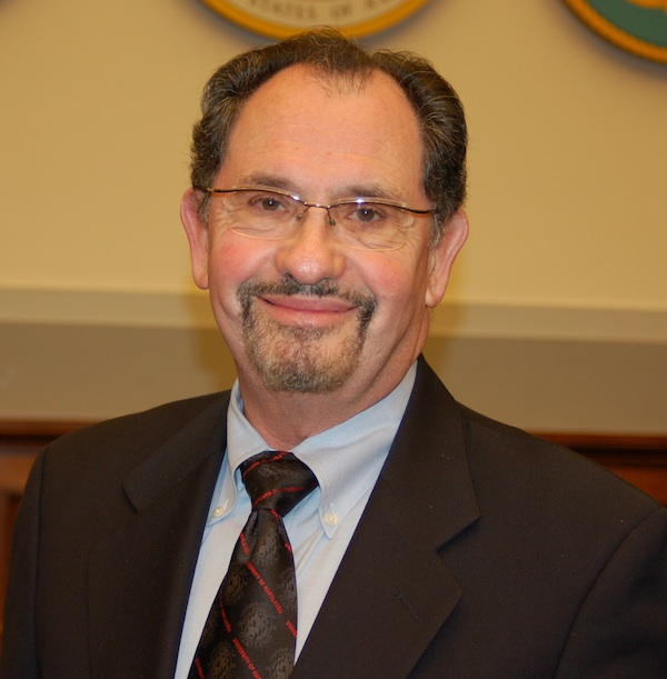 David R. Segal Picture